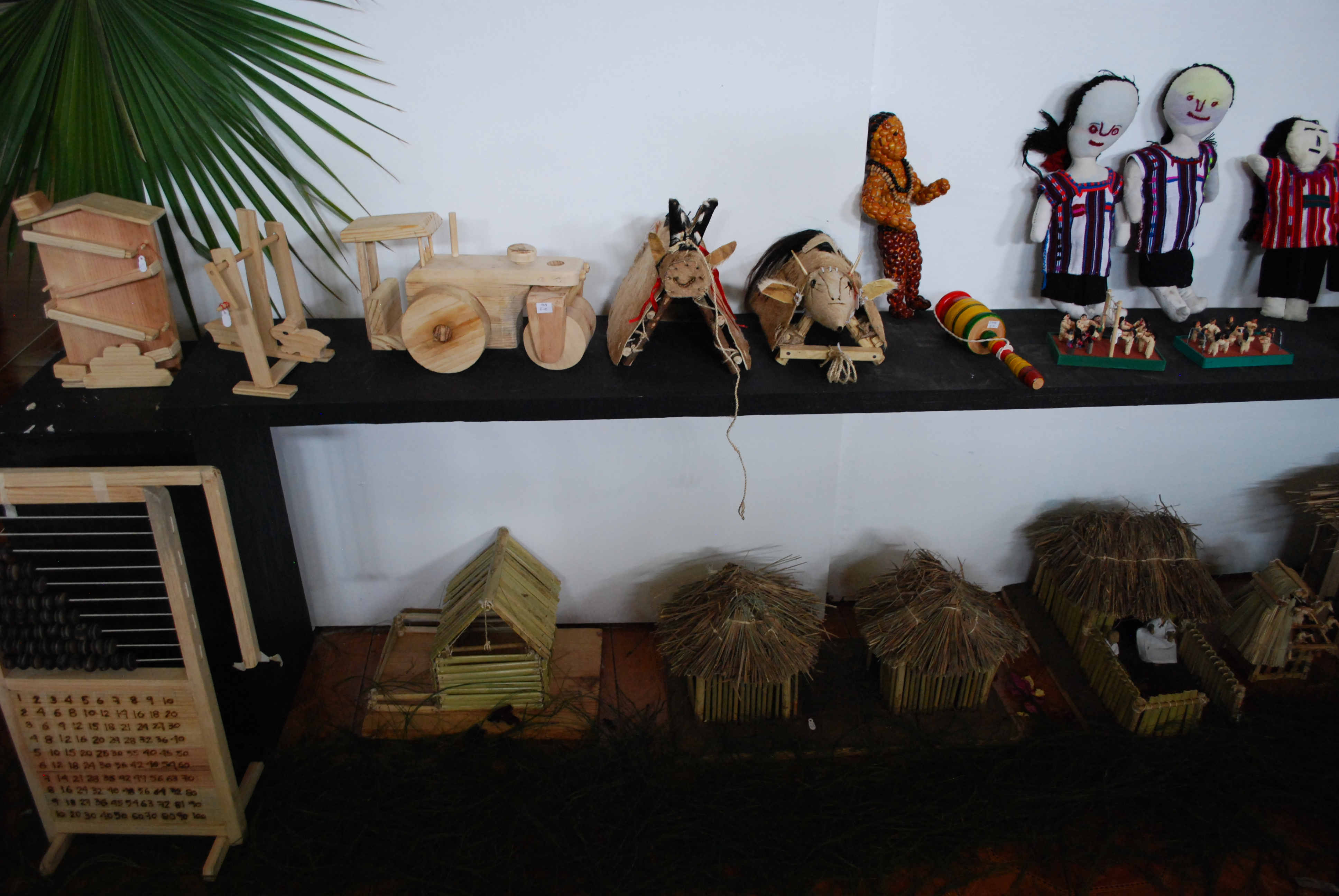 Display of handcrafted toys at the Museo de las Culturas Populares de Chiapas in San Cristobal de las Casas, Chiapas, Mexico